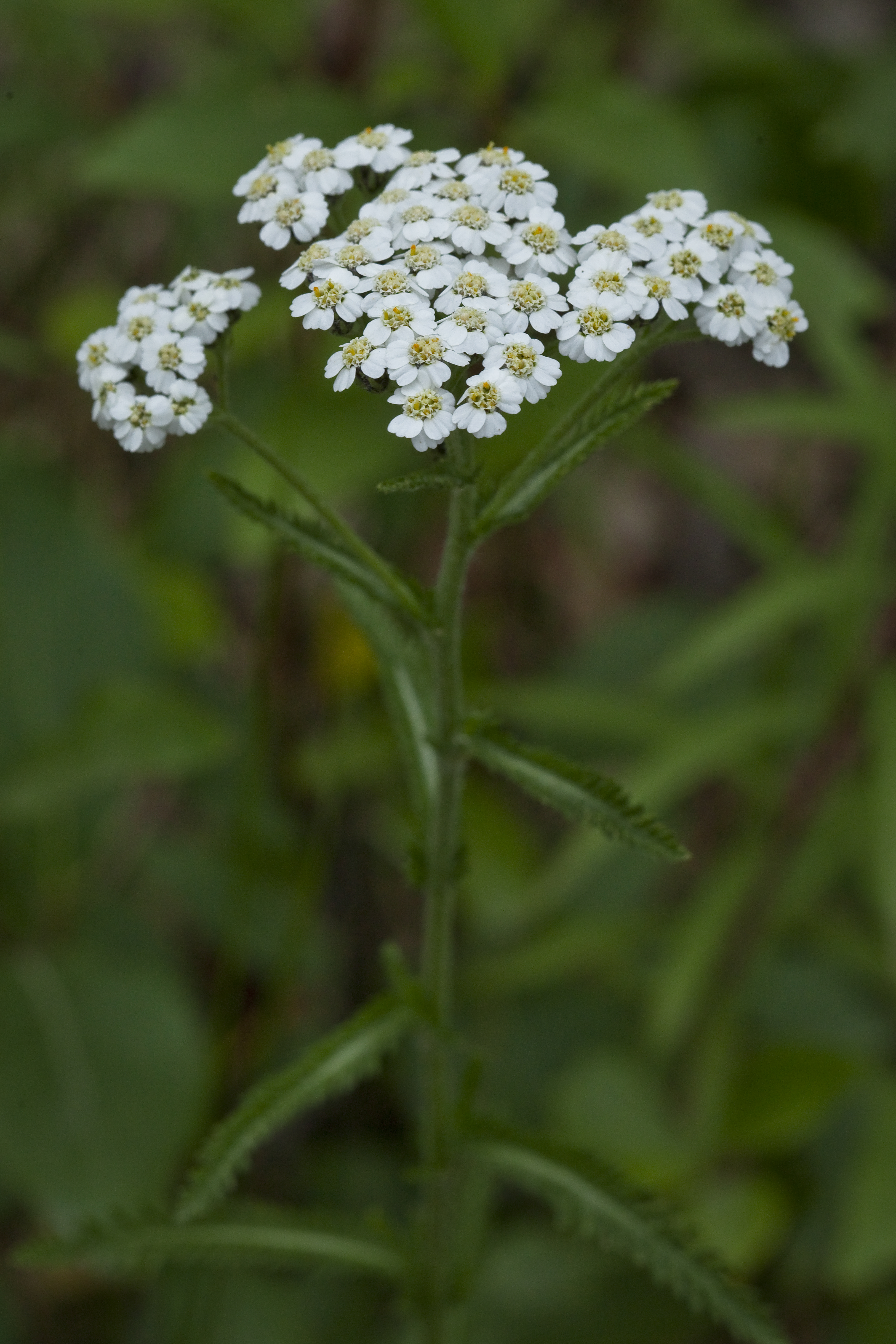 Achillea alpina syn. A. sibirica, Denali National Park and Preserve, AK, USA